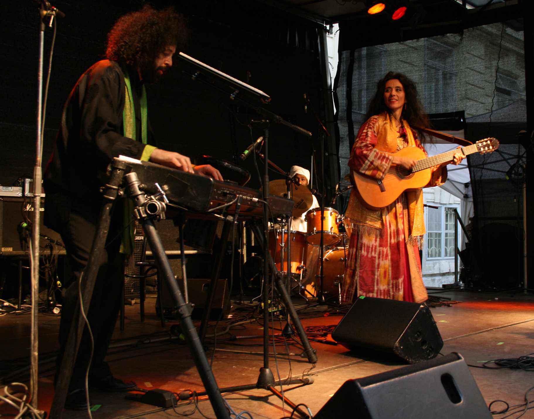 The Timna Brauer & Elias Meiri Ensemble